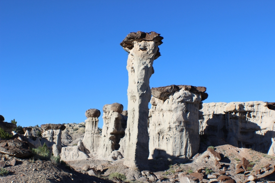 West approach to Hoodooville in the Lybrook Badlands. The Sentinel Hoodoo stands point to Hoodooville